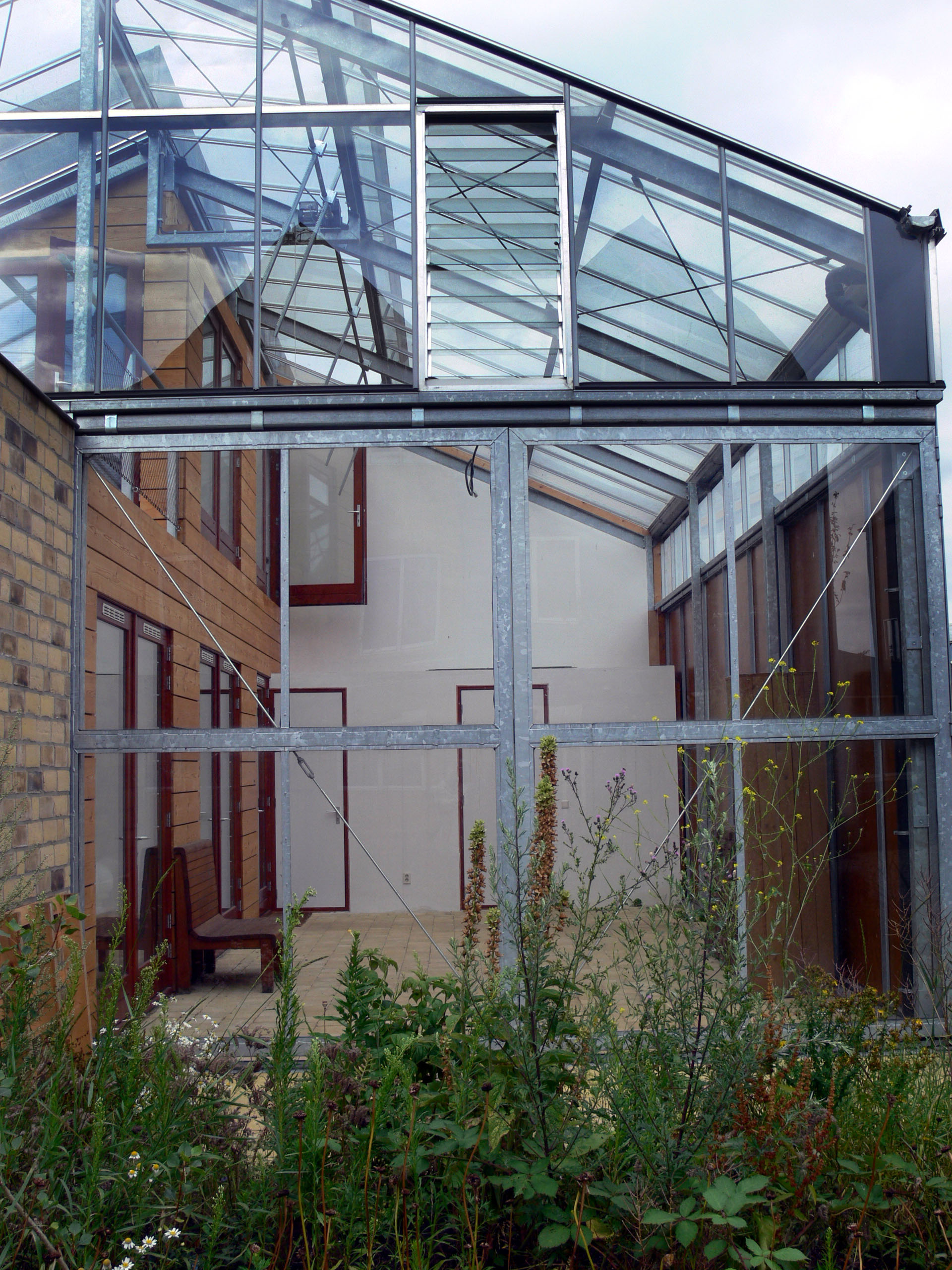 Greenhouse as house in E.V.A. Lanxmeer district (a "green distric" named Lanxmeer, built at Culemborg, The Netherlands), wich is a recent (1994-2009) district (semi-public eco-building) of approximately 250 ecological houses, several offices and a urban farm. The project is based on "Sustainable Implant" with a spatial combinaison of natural systems, technical approach of integrated waste (wastewater) / energy system and écological and social purposes, for an urban neighborhood. The district is in an ecologically sensitive area (former drinking waterextraction and retention area). The conception of this district is based on permaculture, and organic design, a small biogas installation (able to treate black water and organic waste and garden & park waste), a combined Heat Power. Some houses are in closed greenhouse. A semi-public building (the ‘EVA Centre) should yet be made, based on the Living Machine concept.